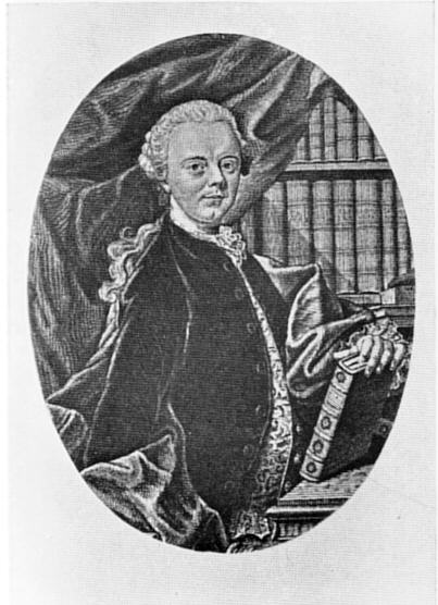 Friedrich Carl Freiherr von Moser (1723-1798) hessian politician and novelist.